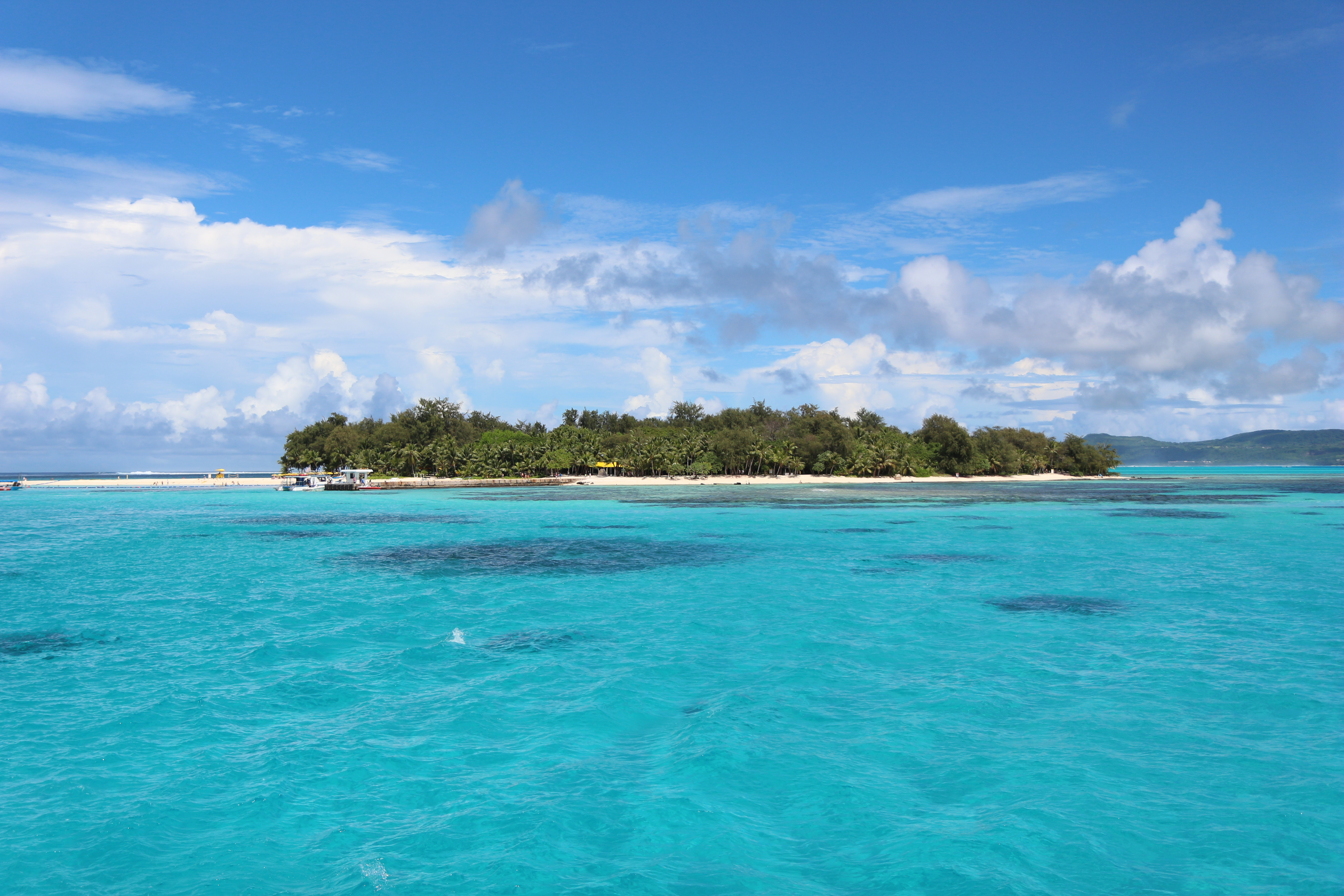 Southwest view of Nanagaha Island, Saipan. 2014.